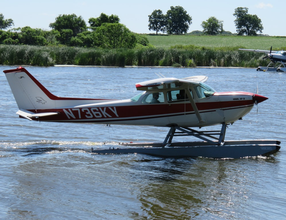 Cessna 172 Hawk XP with Floats